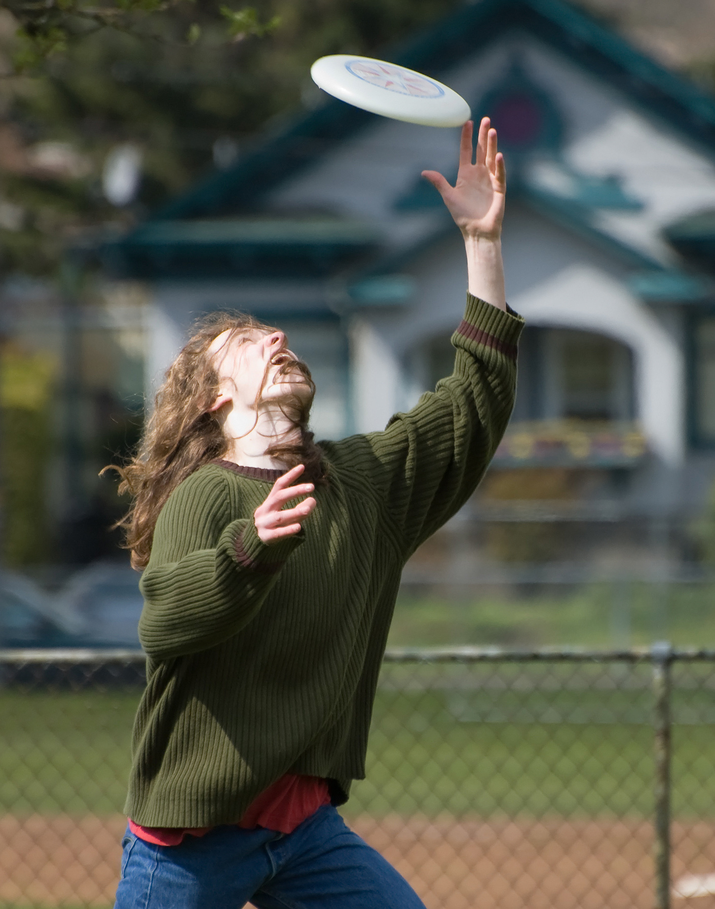 Player catches frisbee